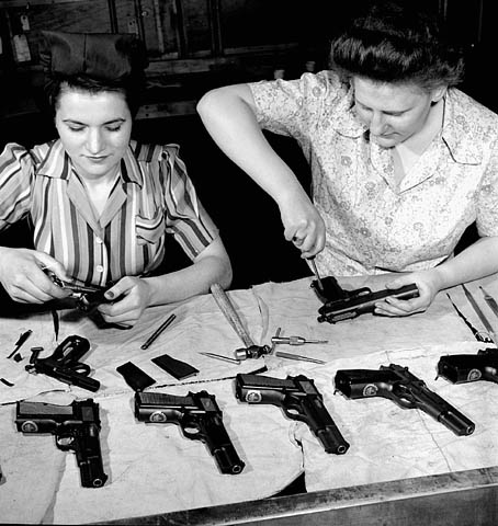 Female workers Agnes Apostle of Dauphin, Manitoba and Joyce Horne of Toronto, Ontario conduct a final assembly of a 9 m.m. semi-automatic pistol destined for China at the John Inglis Co. munitions plant. Toronto, Canada